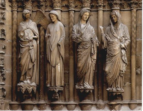 Reims Figures of the Middel Portal to the West: Annonciation (left) and Visitation (right).